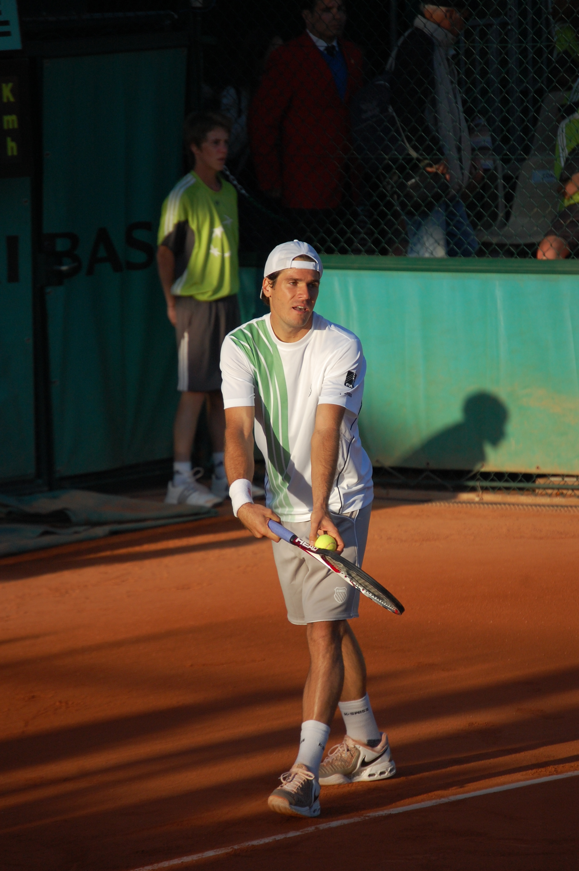 Tommy Haas in Roland Garros, 2009 French Open